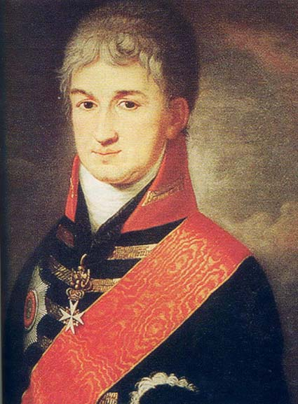 Portrait of Nikolay Rezanov (1764-1807)